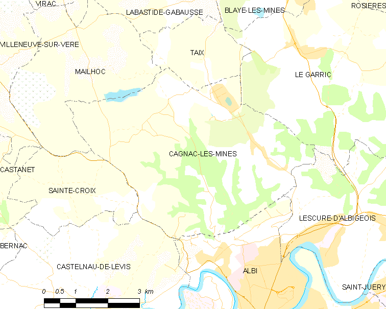 Map of French municipality Cagnac-les-Mines